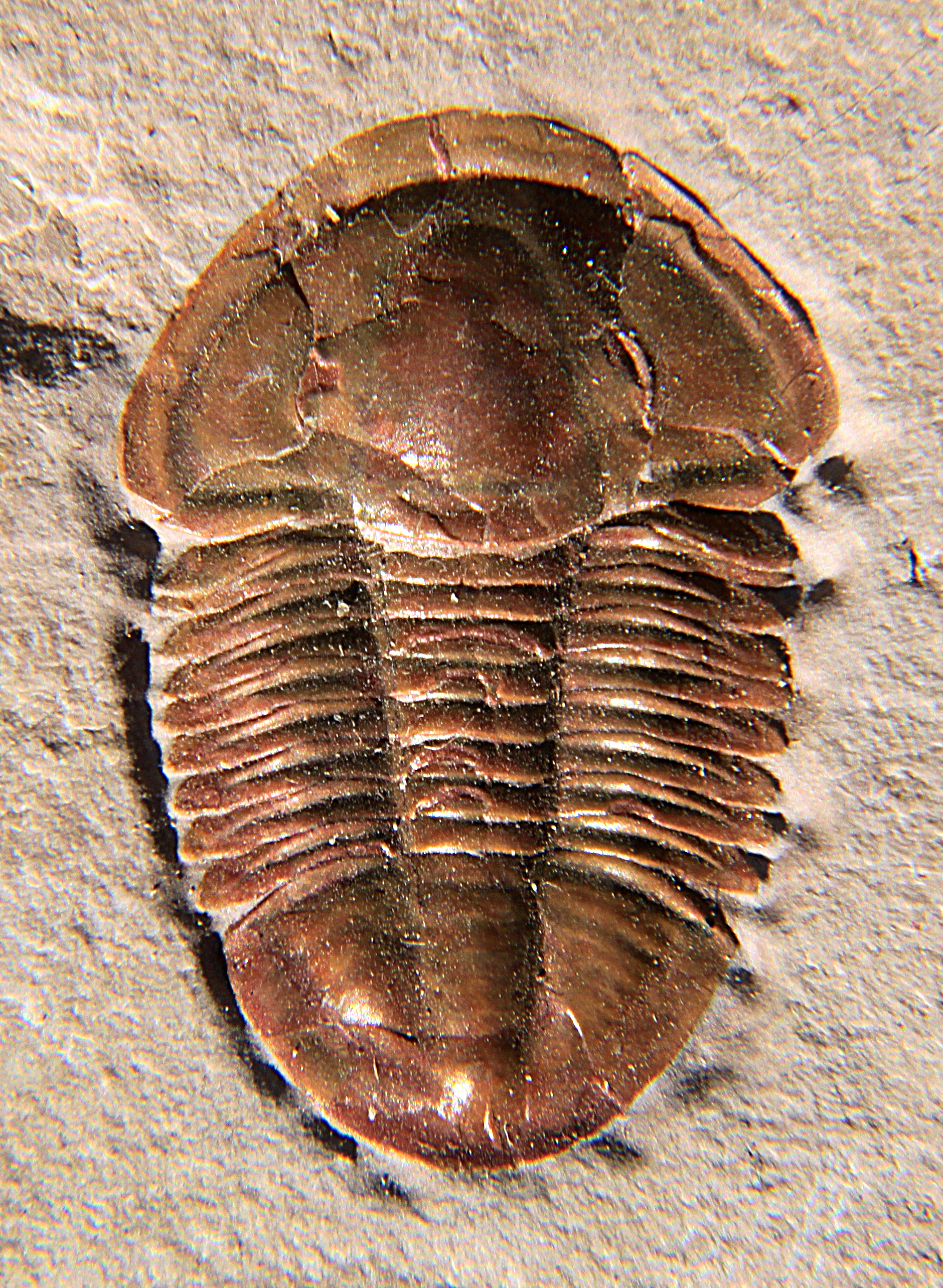 An Asaphiscus wheeleri trilobite, Order Ptychopariida, Family Asaphiscidae, 25 mm measured along the axis, Collected from the Wheeler Formation, Millard County, Utah, USA, from the Middle Cambrian (Drumian)